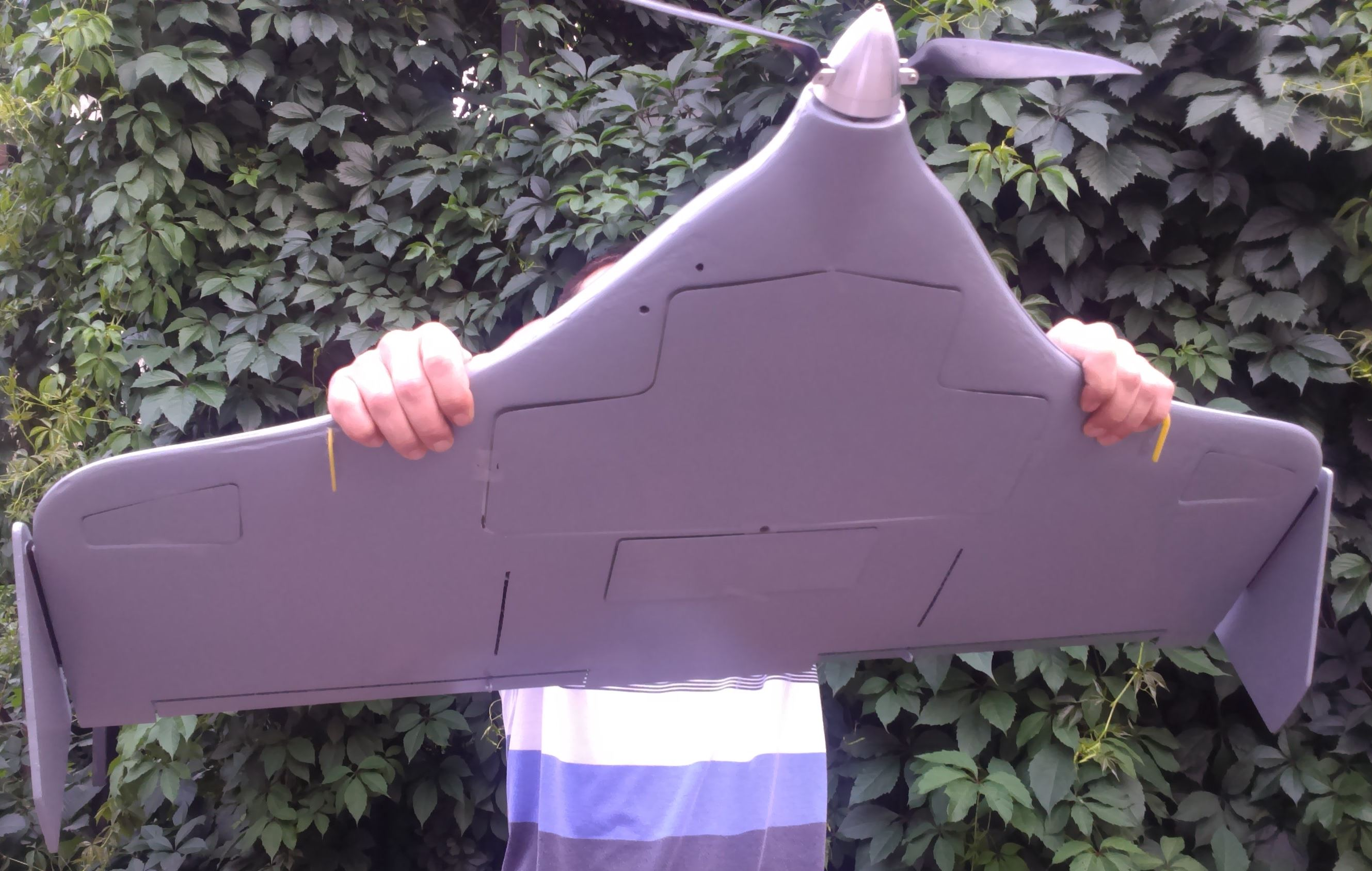 UAV Columba